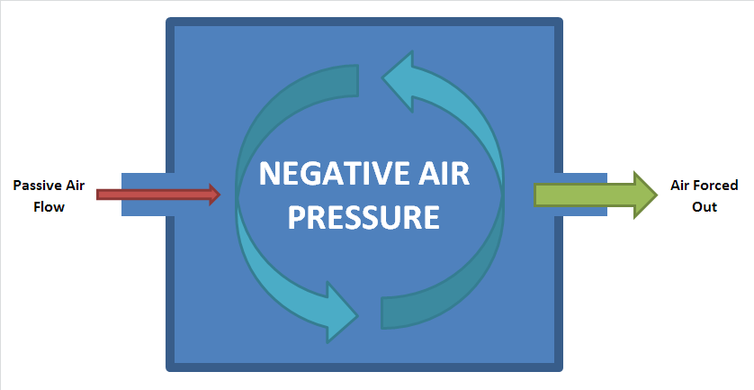 The internal air is forced out so that a negative air pressure is created pulling air passively into the system from other inlets. This image is misleading in that the arrows suggest that a larger volume of air is leaving the chamber than entering it: it would be better to have a pressure gauge icon at the inlet and outlet.